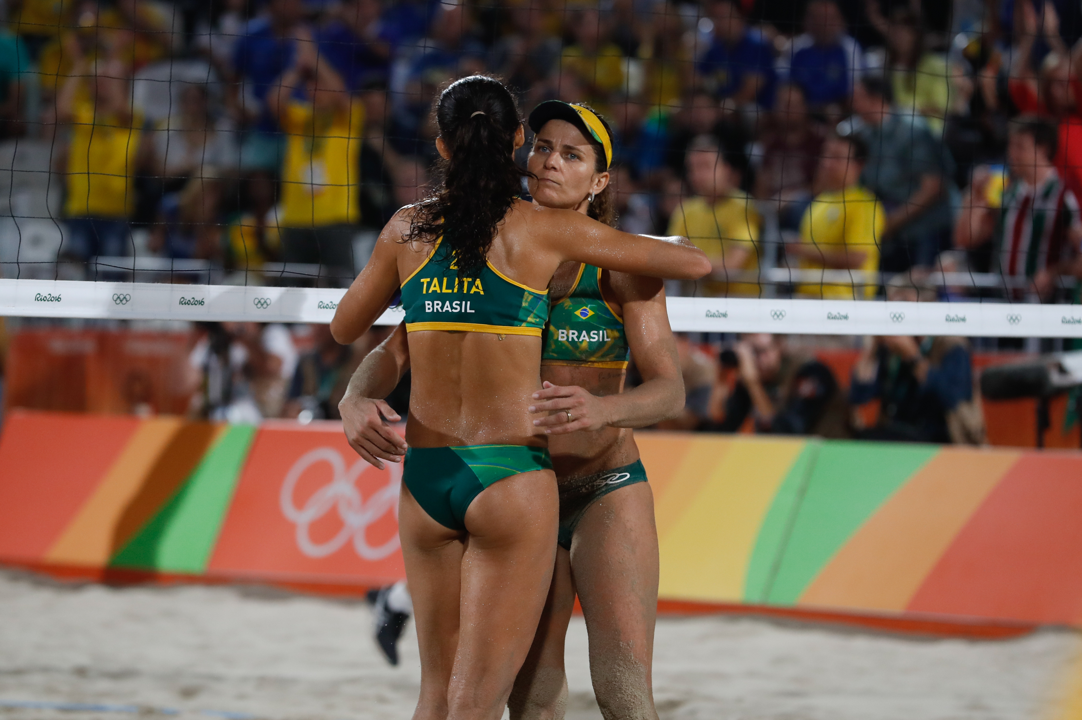 Rio de Janeiro - Dupla de vôlei de praia doBrasil Larissa e Talita perdem a disputa de bronze para norte-americanas Walsh e Ross nos Jogos Olímpicos Rio 2016, em Copacabana ( Fernando Frazão/Agência Brasil)